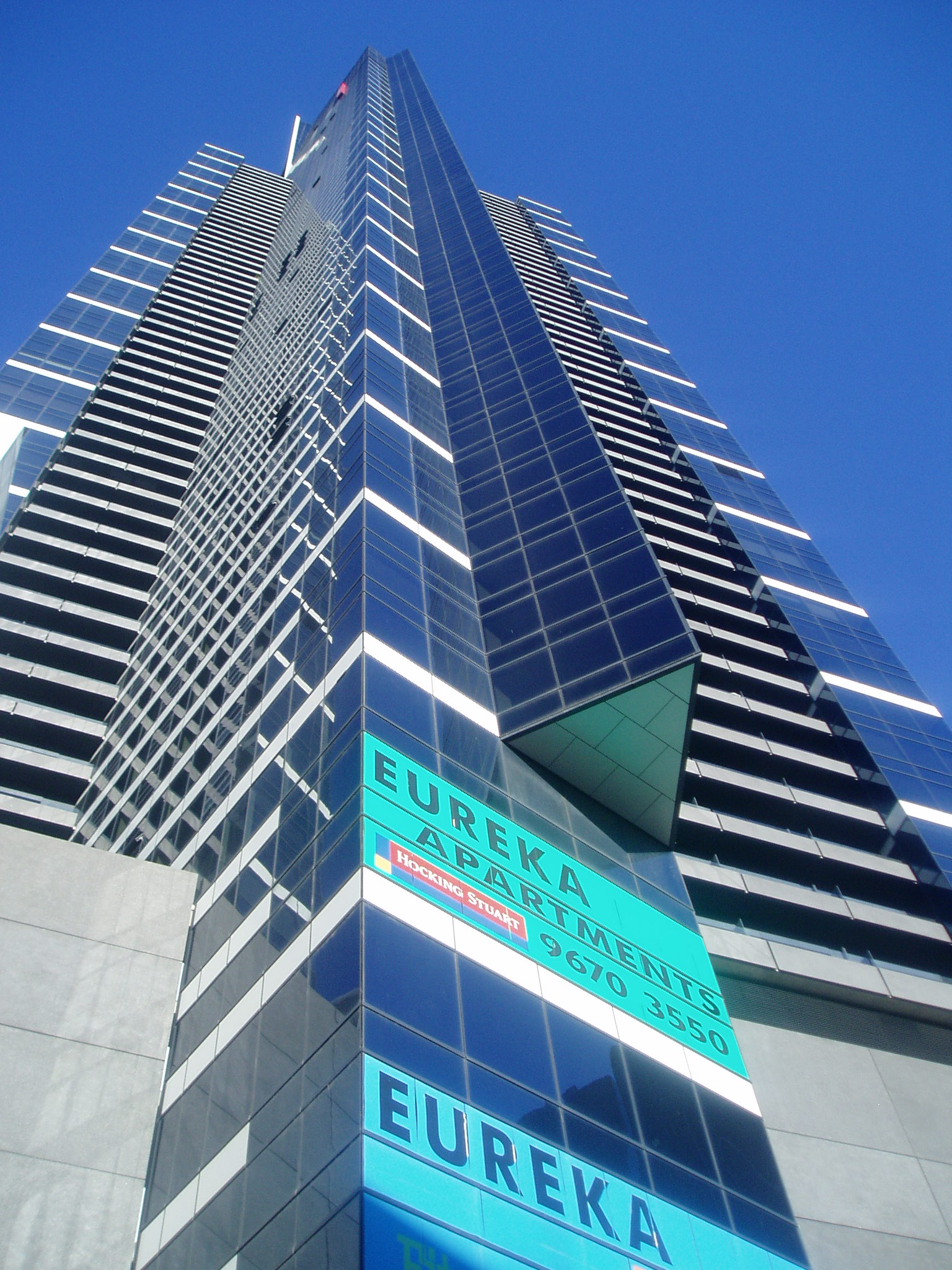 Eureka Tower, Melbourne. Author/Photographer L.Corstorphin.